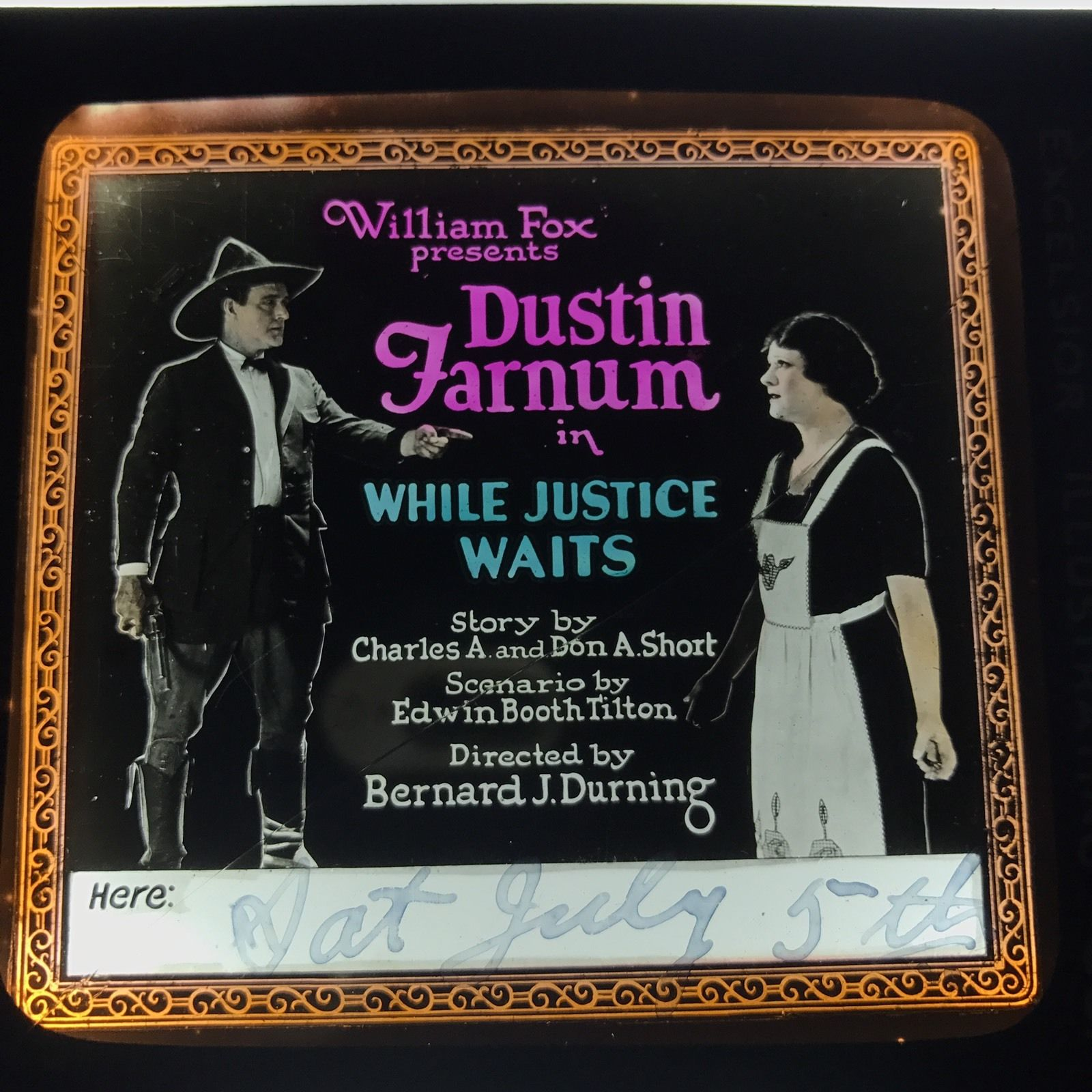 This is a lantern slide for the American film While Justice Waits (1922).